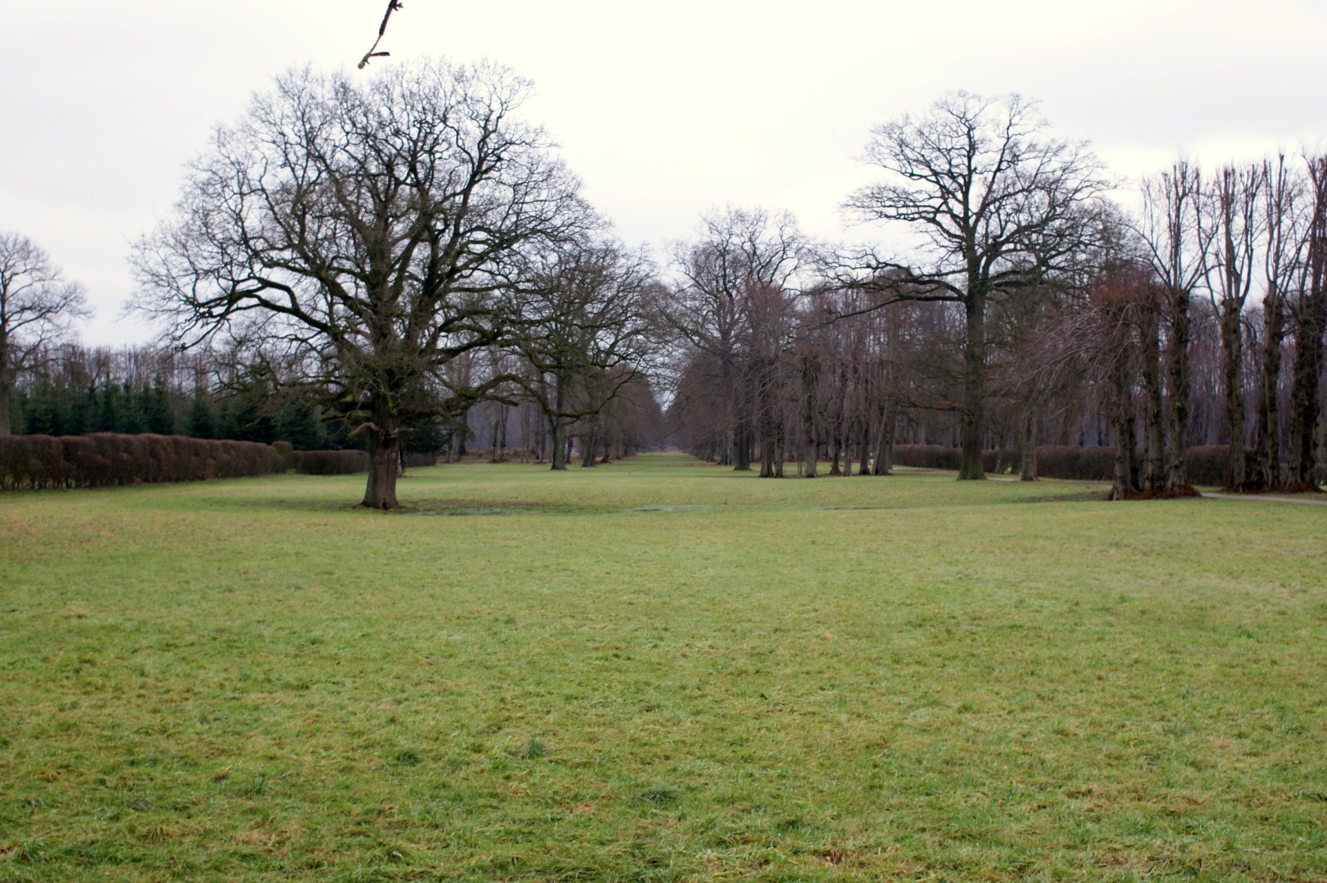 formerly Baroqueggarden of Jersbek Manor